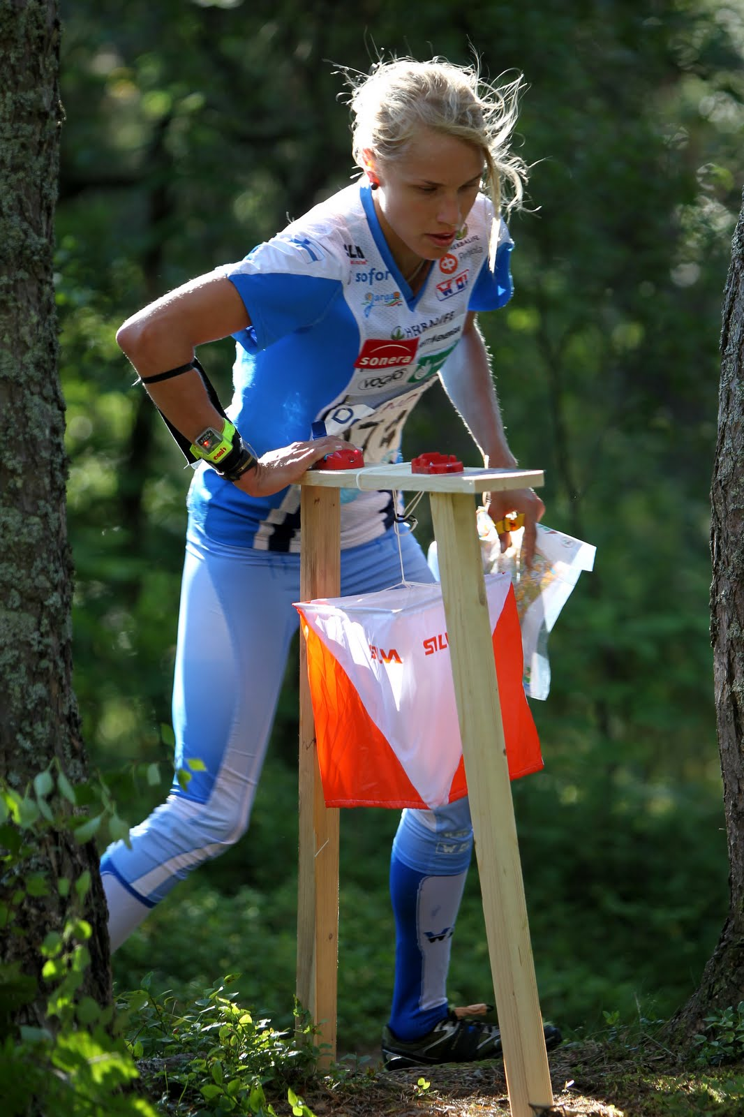 Minna Kauppi at World Orienteering Championships 2010 in Trondheim, Norway